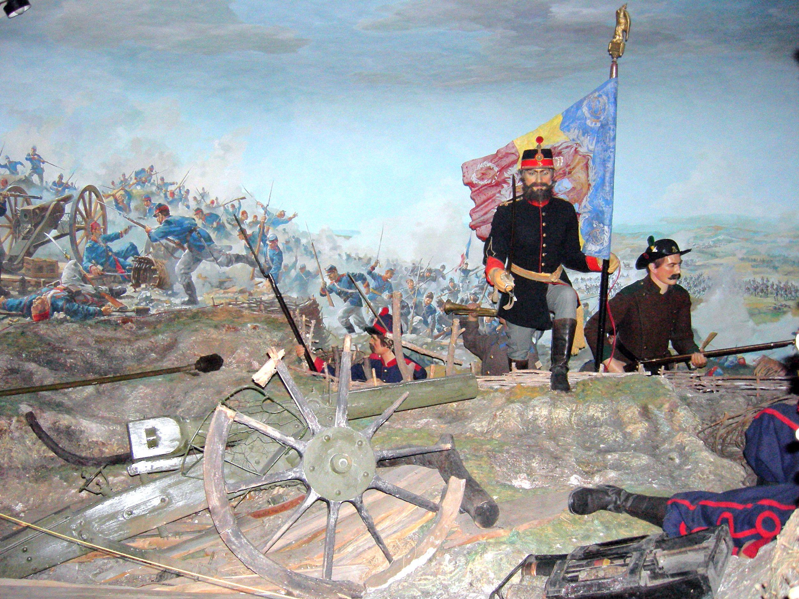 Diorama of the Battle of Plevna from the Military Museum, Bucharest, Romania. The artillery piece is a model of a German-made Krupp 8 cm Stahlkanone C/64.